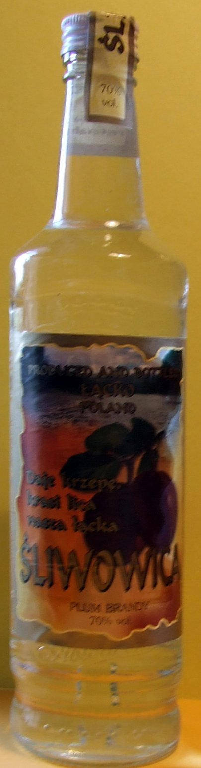 Slivovitz from Łącko